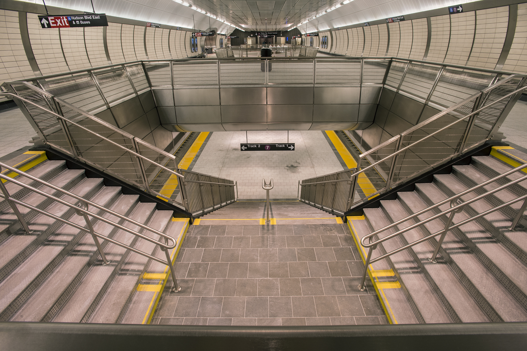 34 St-Hudson Yards Station